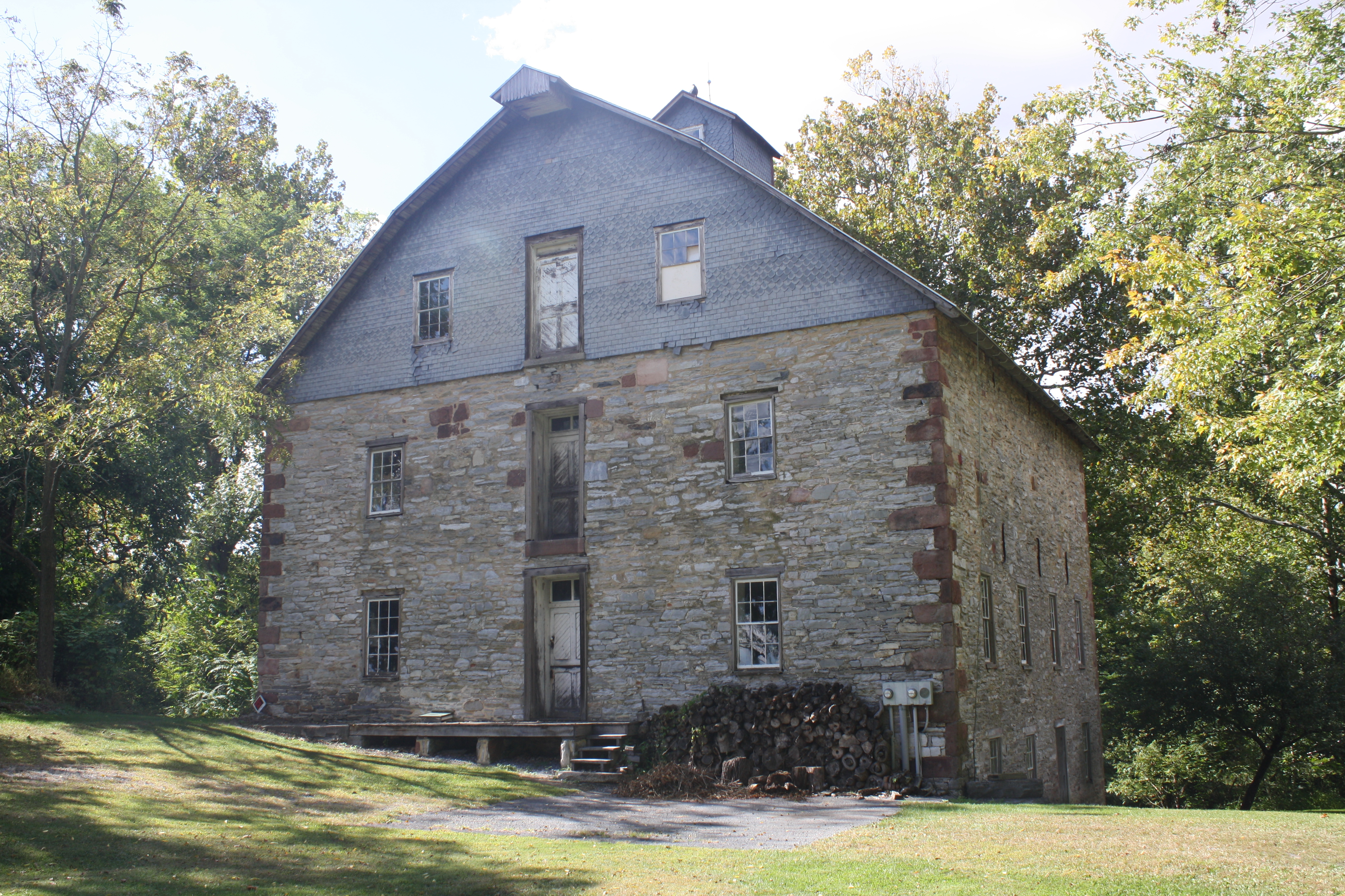 Farm complex on the NW corner of U.S. Route 422 and Pennsylvania Route 419. Tulpehocken Creek Historic District, mill.